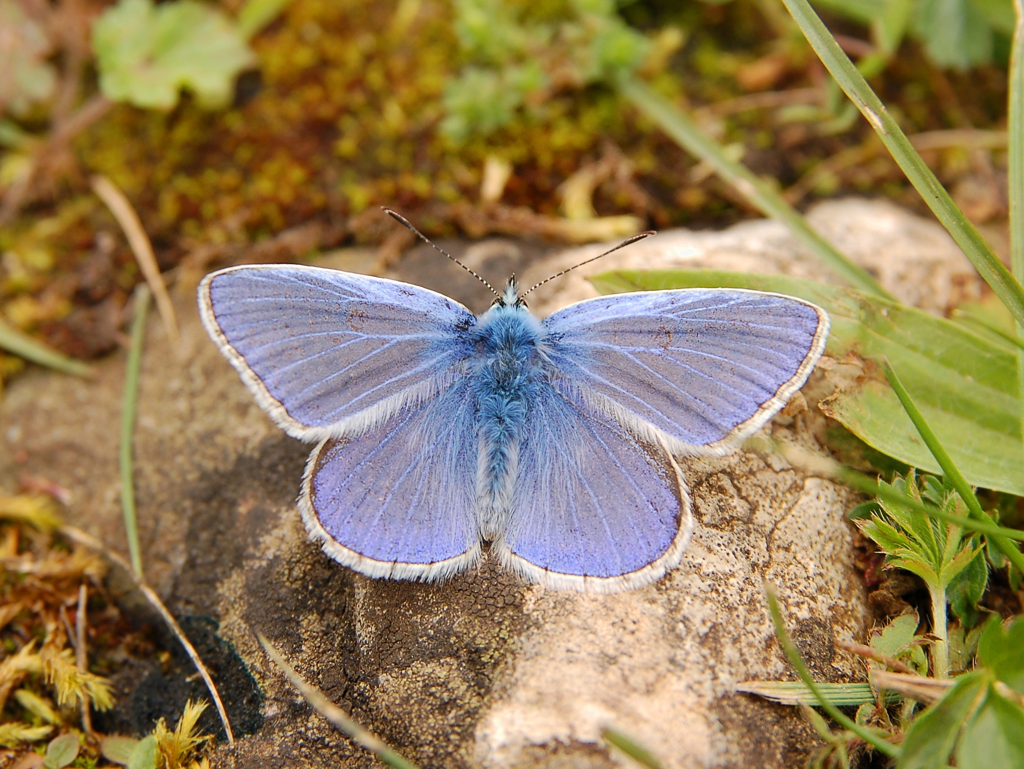 Butterfly Polyommatus icarus, Belgium (natural reserve Furfooz).